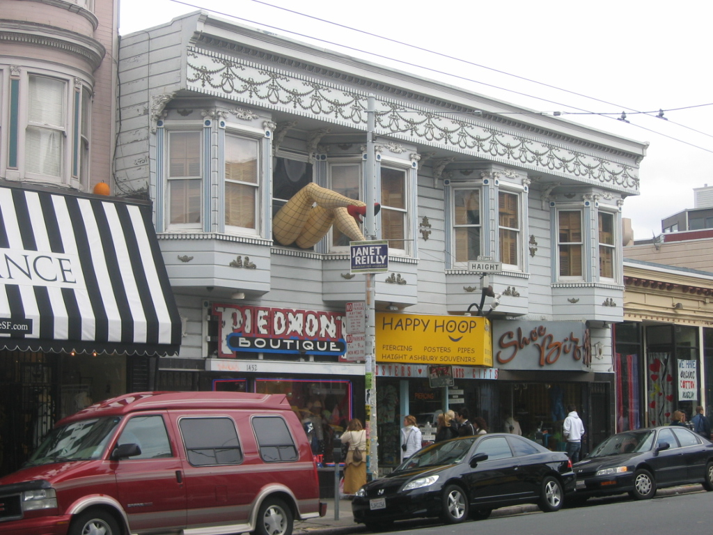 Haight-Ashbury, San Francisco, California, USA